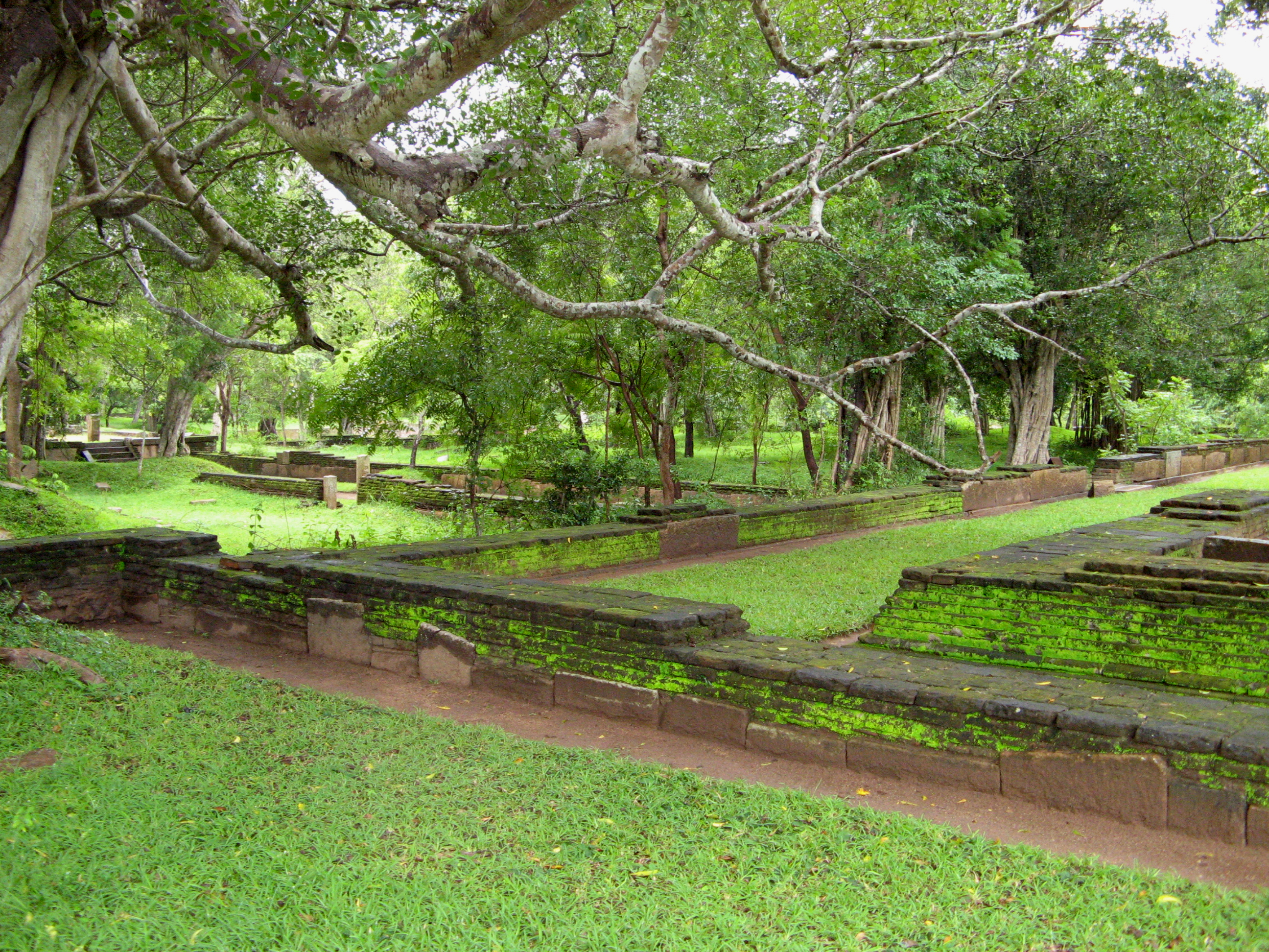 The monastery was founded in 88 BC by King Valagamba (Vattagamani Abhaya) of Anuradhapura, in fulfillment of a vow that he had made to regain his throne when his country was invaded by the Tamils. Abhayagiri is the earliest heterodox Buddhist monastery in Sri Lanka; its doctrines included various Mahayana and esoteric concepts that were regarded as non-orthodox by its Theravada rivals.